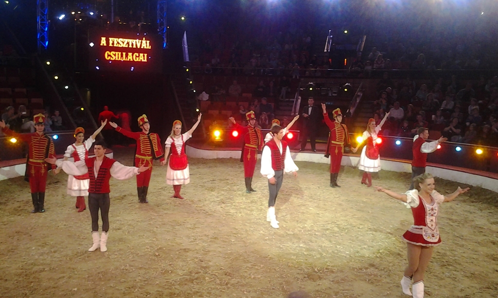 Richter Troupe in Capital Circus of Budapest.